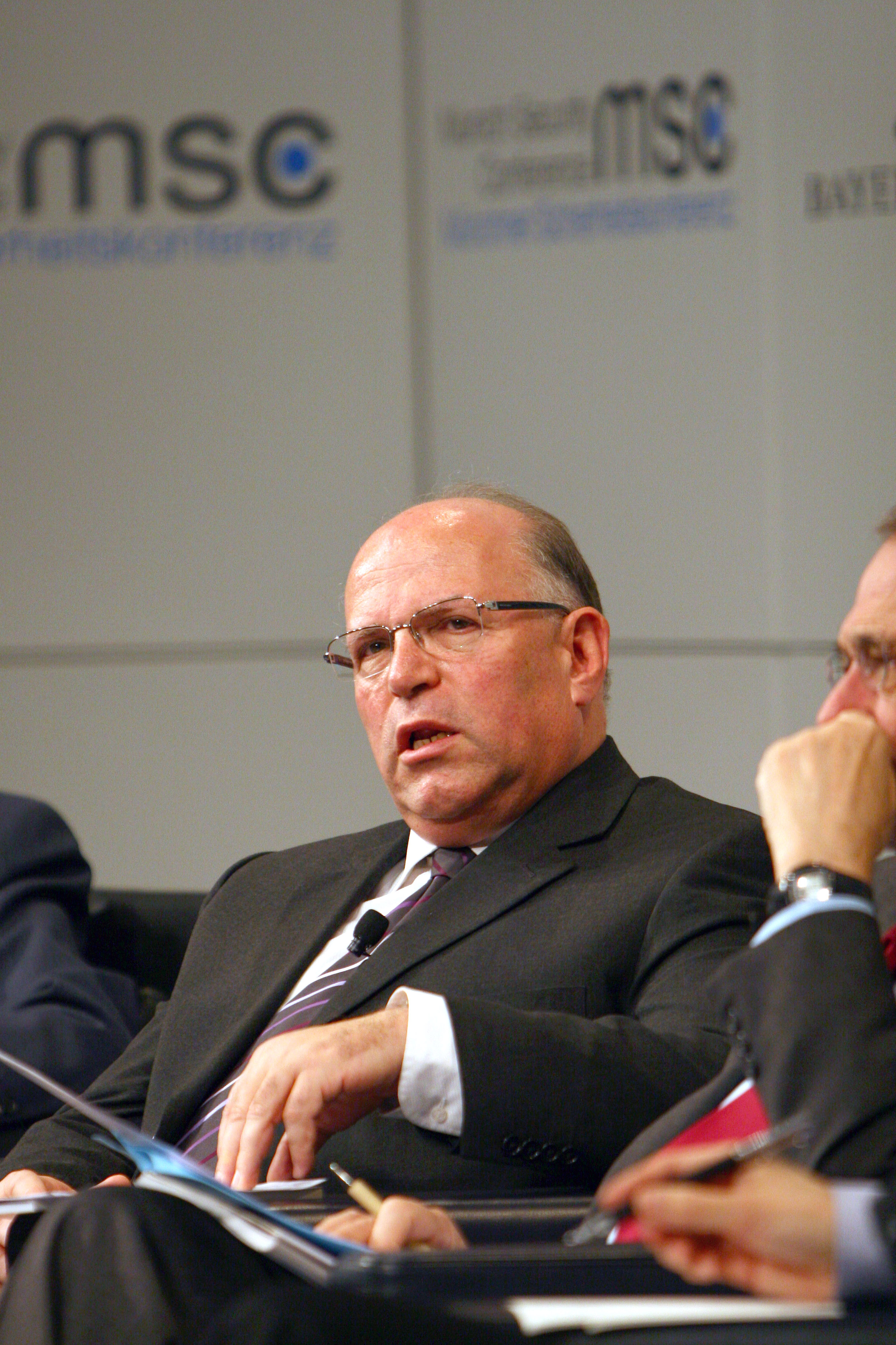 47th Munich Security Conference 2011: Dr. Uzi Arad, National Security Advisor, Head of the National Security Council, State of Israel.